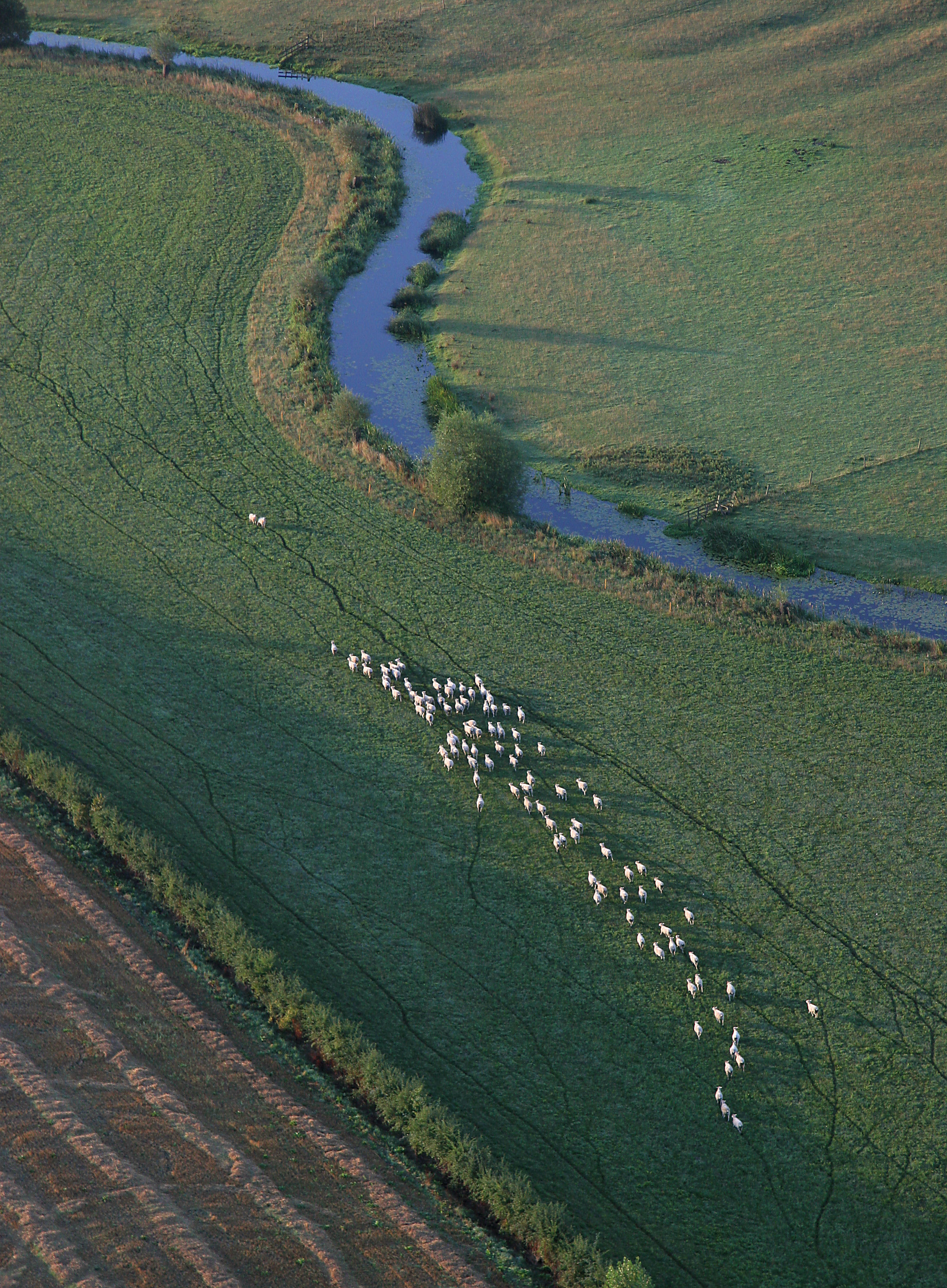 This flock of sheep, spooked by the roar of the balloon's propane burner, had the decency to form a line parallel (ish) with the hedge and river in Warwickshire